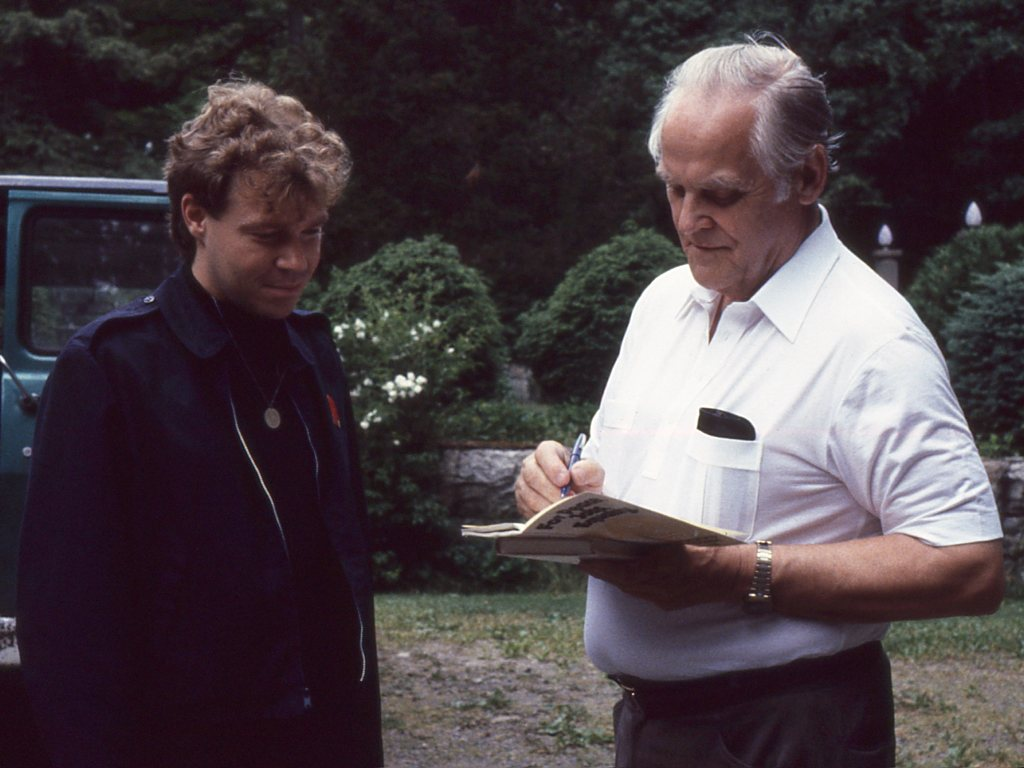 Gus Hall signs an autograph (Upstate New York).